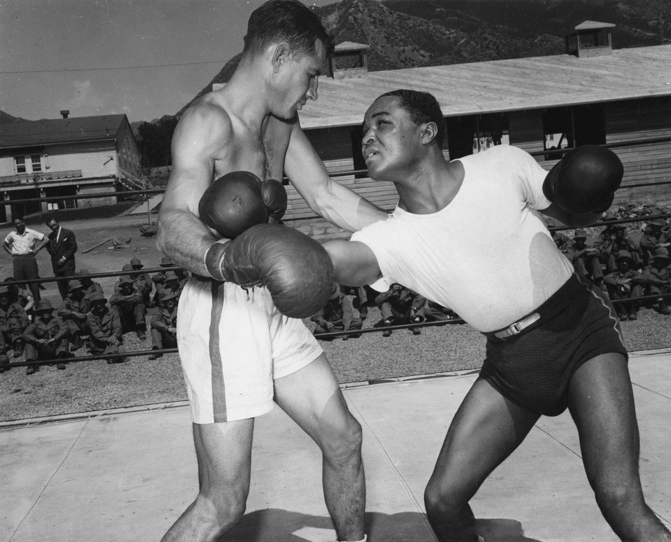 Henry Armstrong (on the right) and soldier put on boxing exhibition at Fort Douglas Reception Center, Utah. World War 2, 1943.